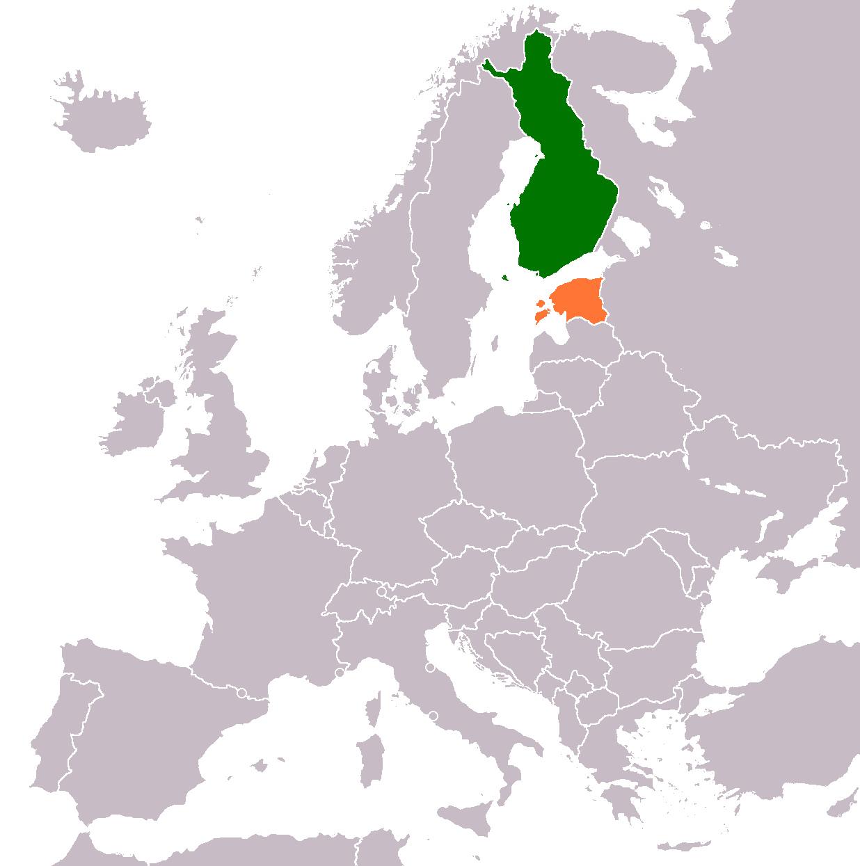 Finland Estonia Locator